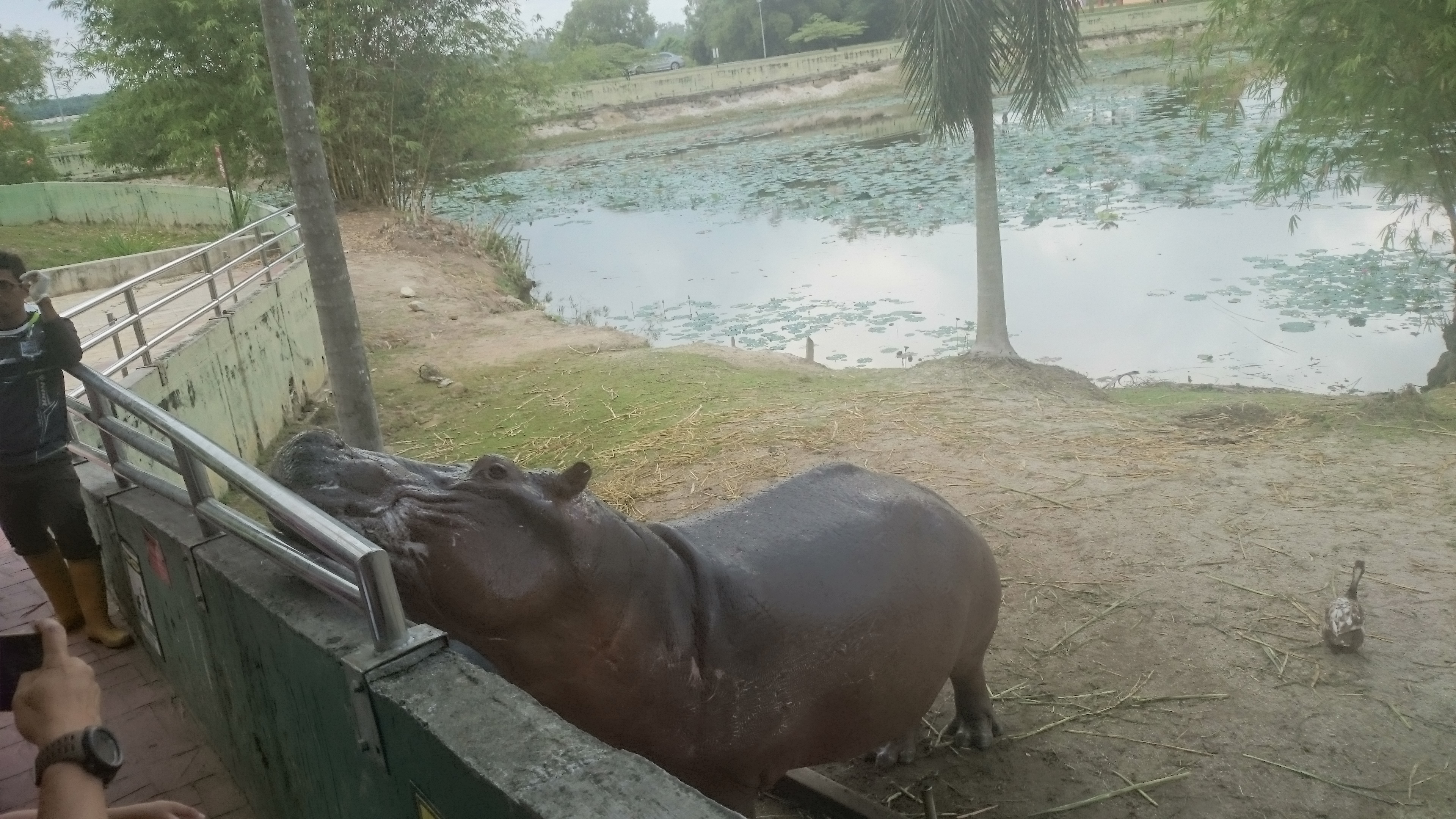 Hippopotamus at Paya Indah Wetland, Selangor, Malaysia.